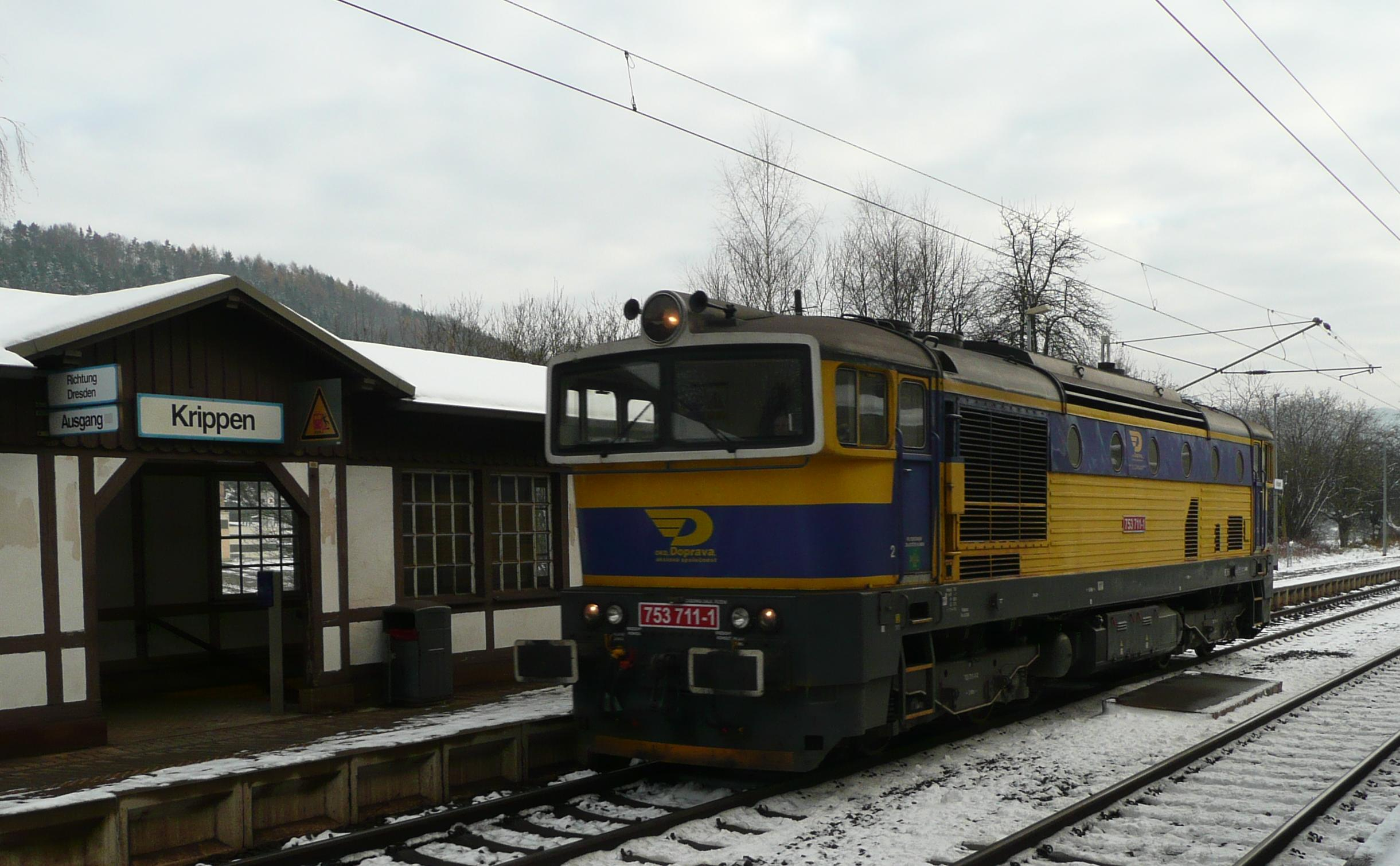 This image shows a czech diesel locomotive class 753.7 (753.711-1) in Krippen (railway line Dresden–Děčín).